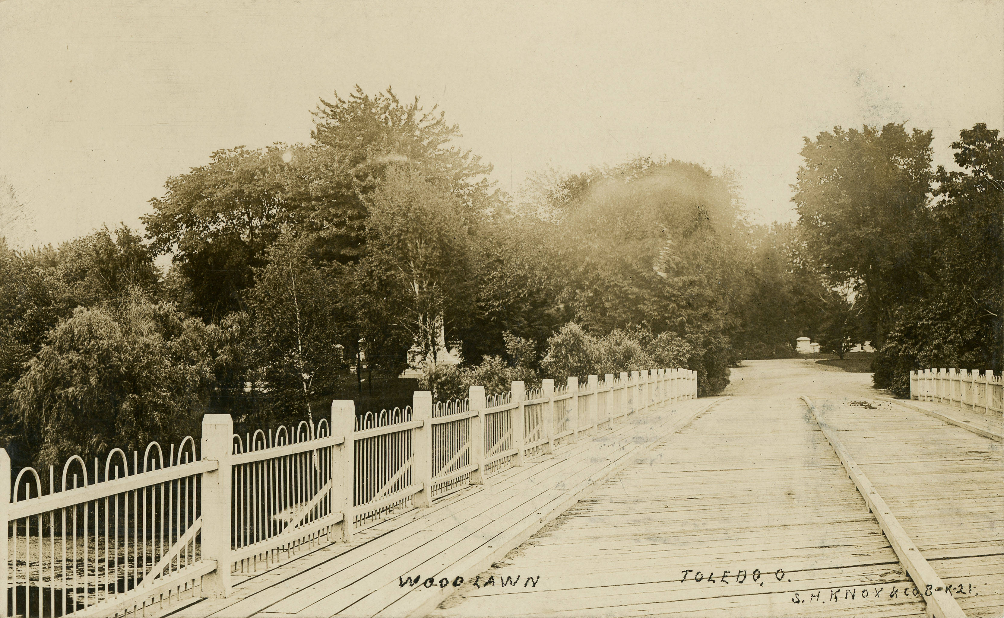 A postcard from the Ken Levin Toledo Postcard Collection, donated by Toledo resident, Ken Levin. The collection contains picture postcards about the Toledo area. Mr. Levin’s collection was published by the Toledo Blade in a book entitled “You Will Do Better in Toledo: From Frogtown to Glass City”, edited by Sandy and John R. Husman.